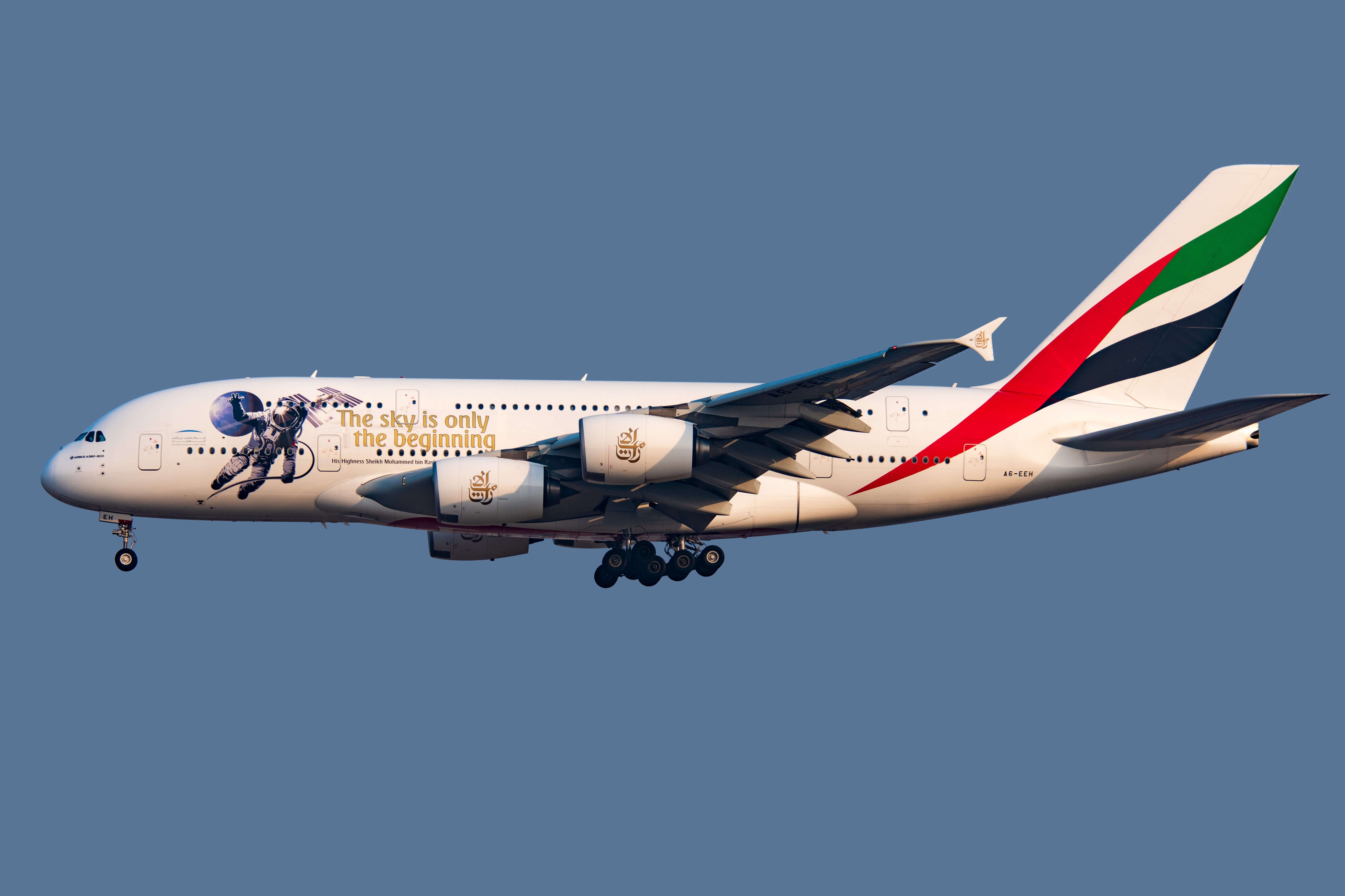 Emirates 306 Super from Dubai, with UAE astronaut livery. "The sky is only the beginning" - it just happened that China successfully launched the CZ-5 (nicknamed "Fat Five") rocket last night!